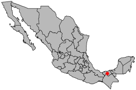 locator map of Villahermosa, Tabasco, Mexico